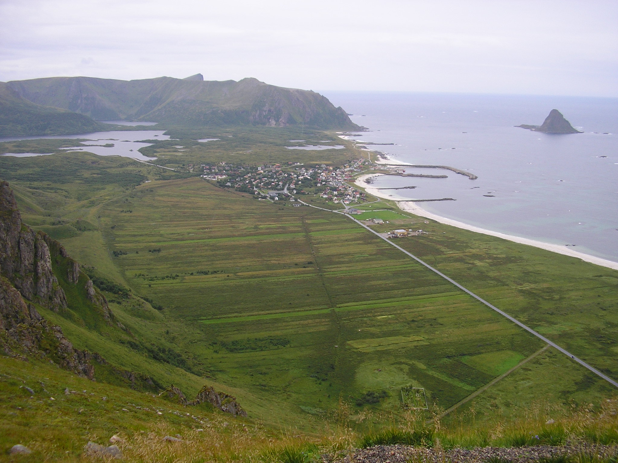 View of Bleik, Andøya, showing raised wave-cut platform and beach line